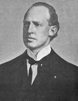 Picture of George A. Bartlett.